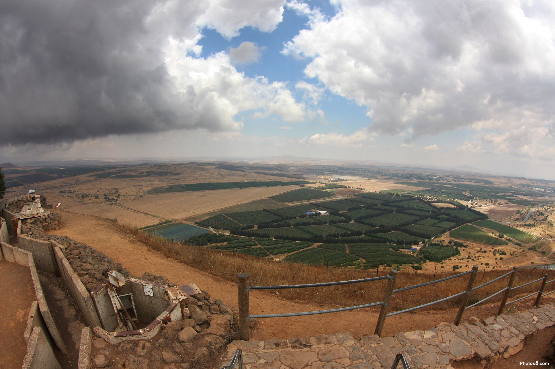 View of Syria from the Israeli part of the Golan Heights.